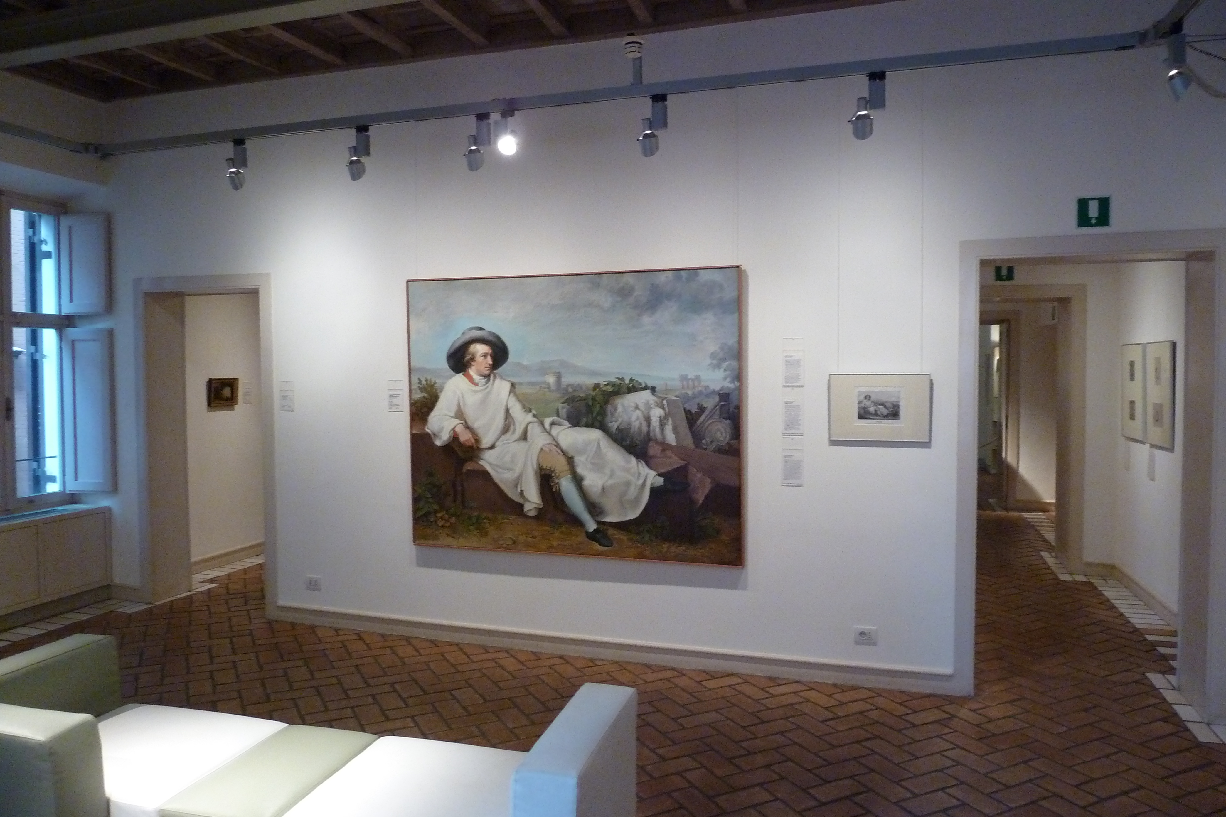 Copy of the wellknown painting "Goethe in the Roman Campagna" from the painter Tischbein